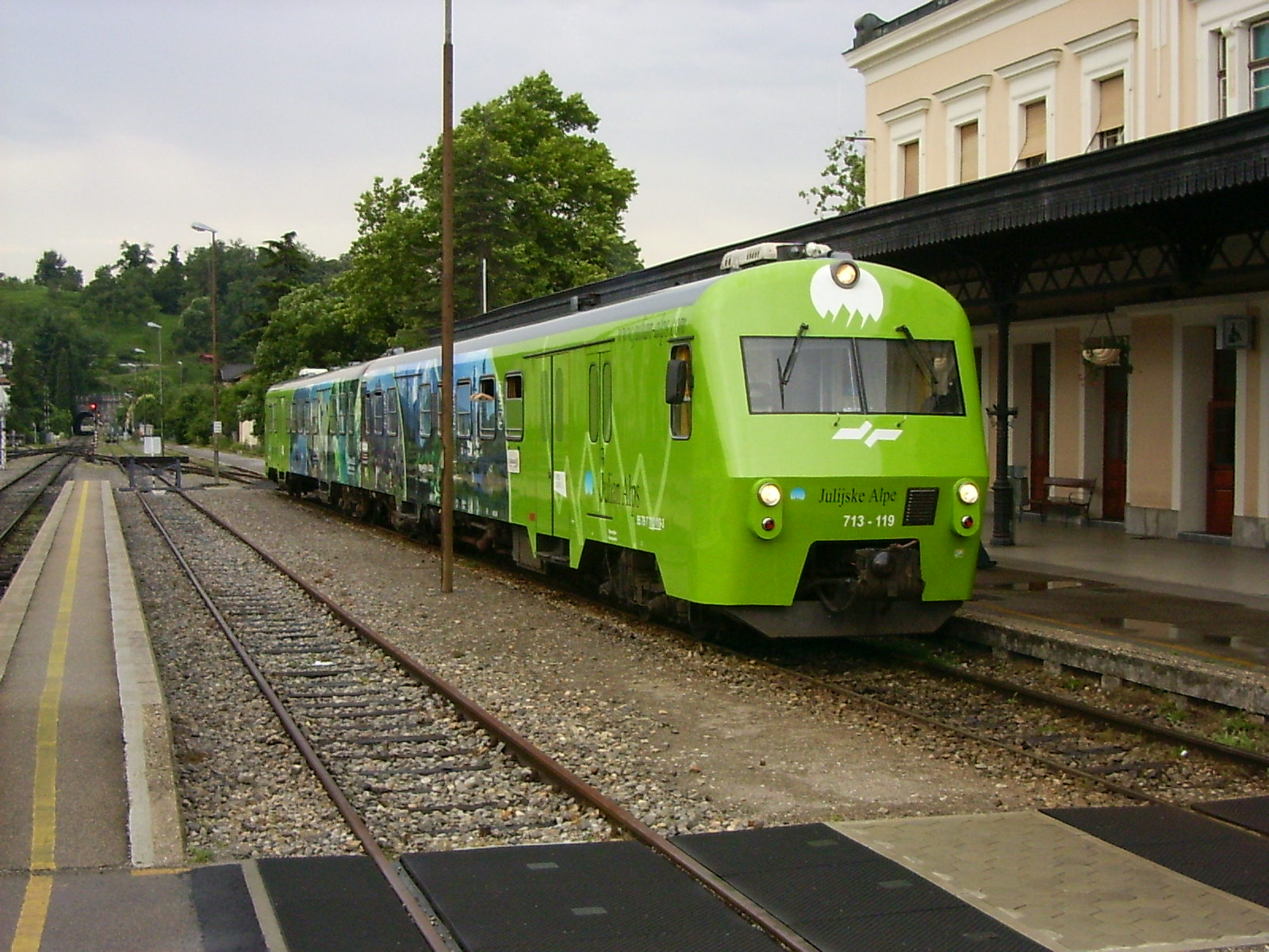 Julian Alps train at Nova Gorica train station. Train type 713, serial number 119.